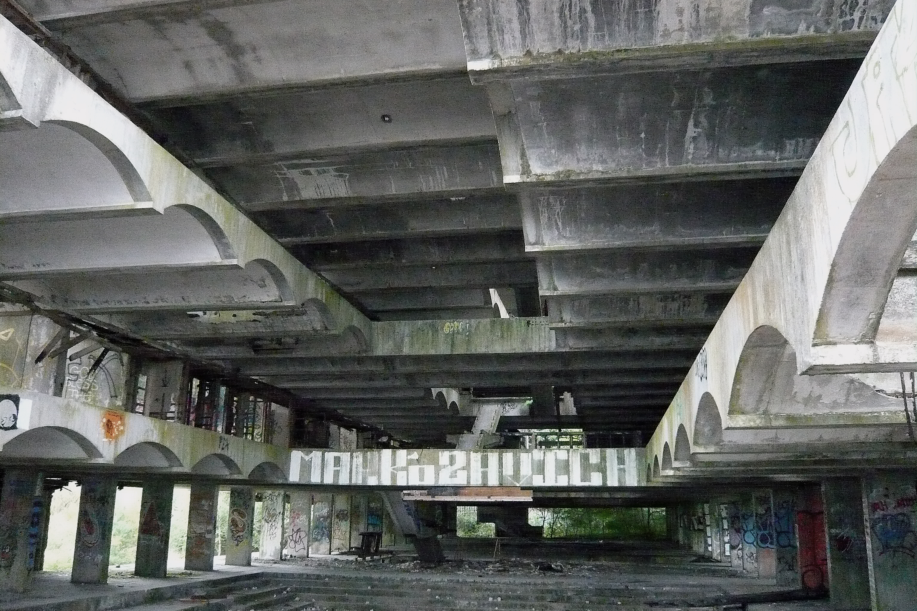 Part of a collection of own work photographs of St Peter's Seminray in Cardross, taken June 2010.